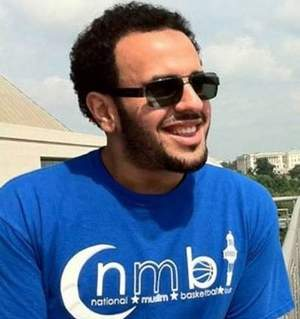 Mohamed Soltan, Egyptian American activist detained by Egyptizn authorities